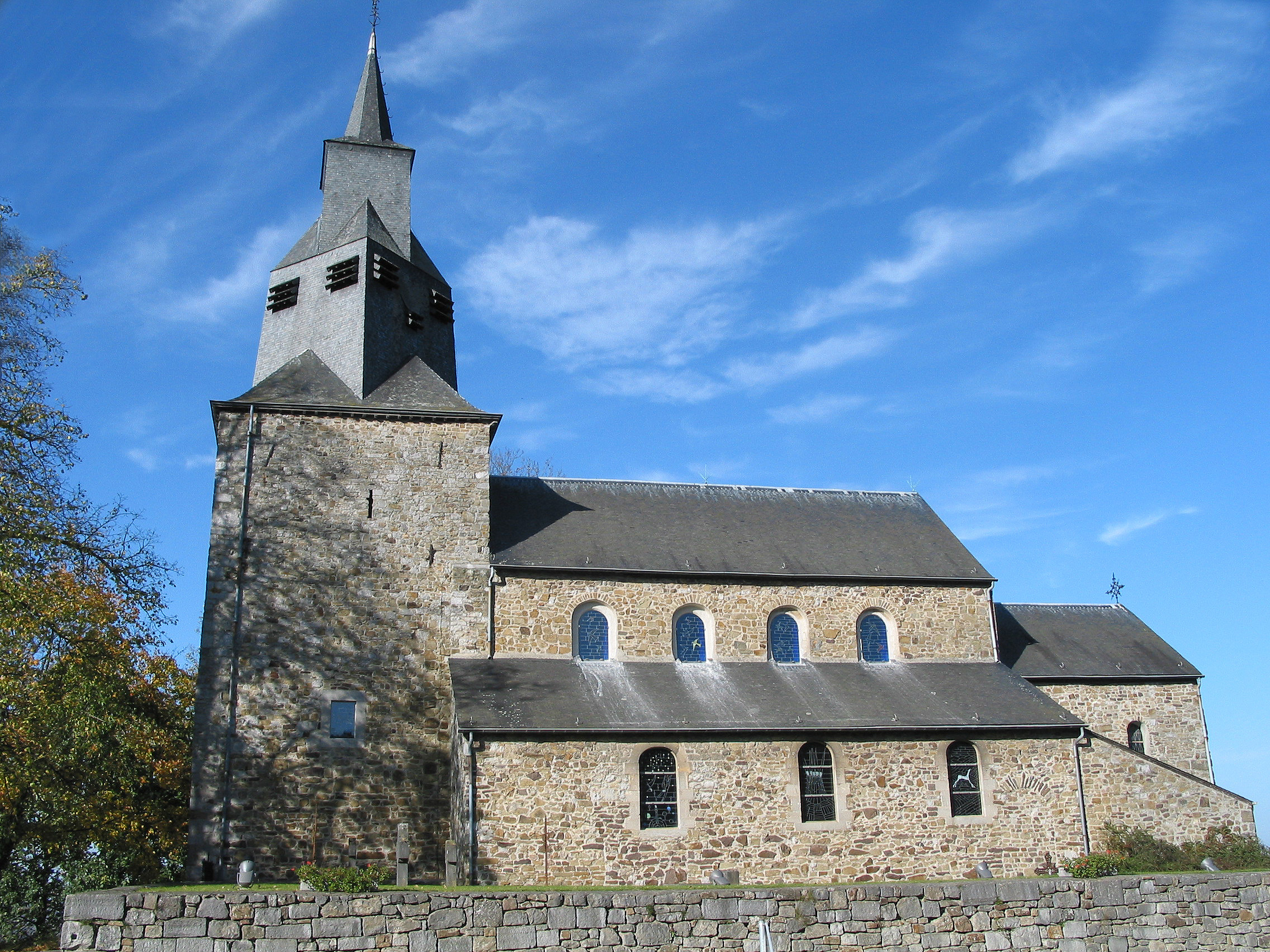 Waha (Belgium), St. Stephen's church (1050).